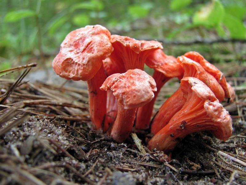 Fruit bodies of the fungus Cantharellus cinnabarinus (Schwein.) Schwein. Specimens photographed in Oneida Co., New York, USA.